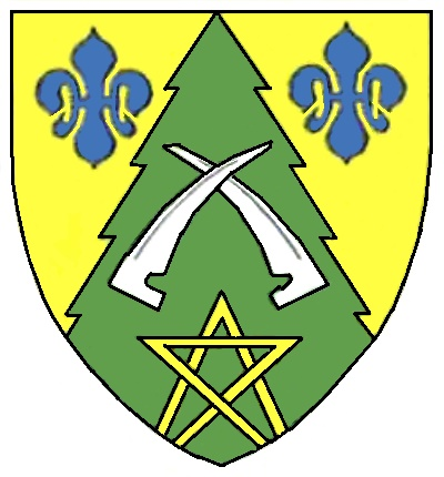 Coat of arms of Ramsau, Lower Austria